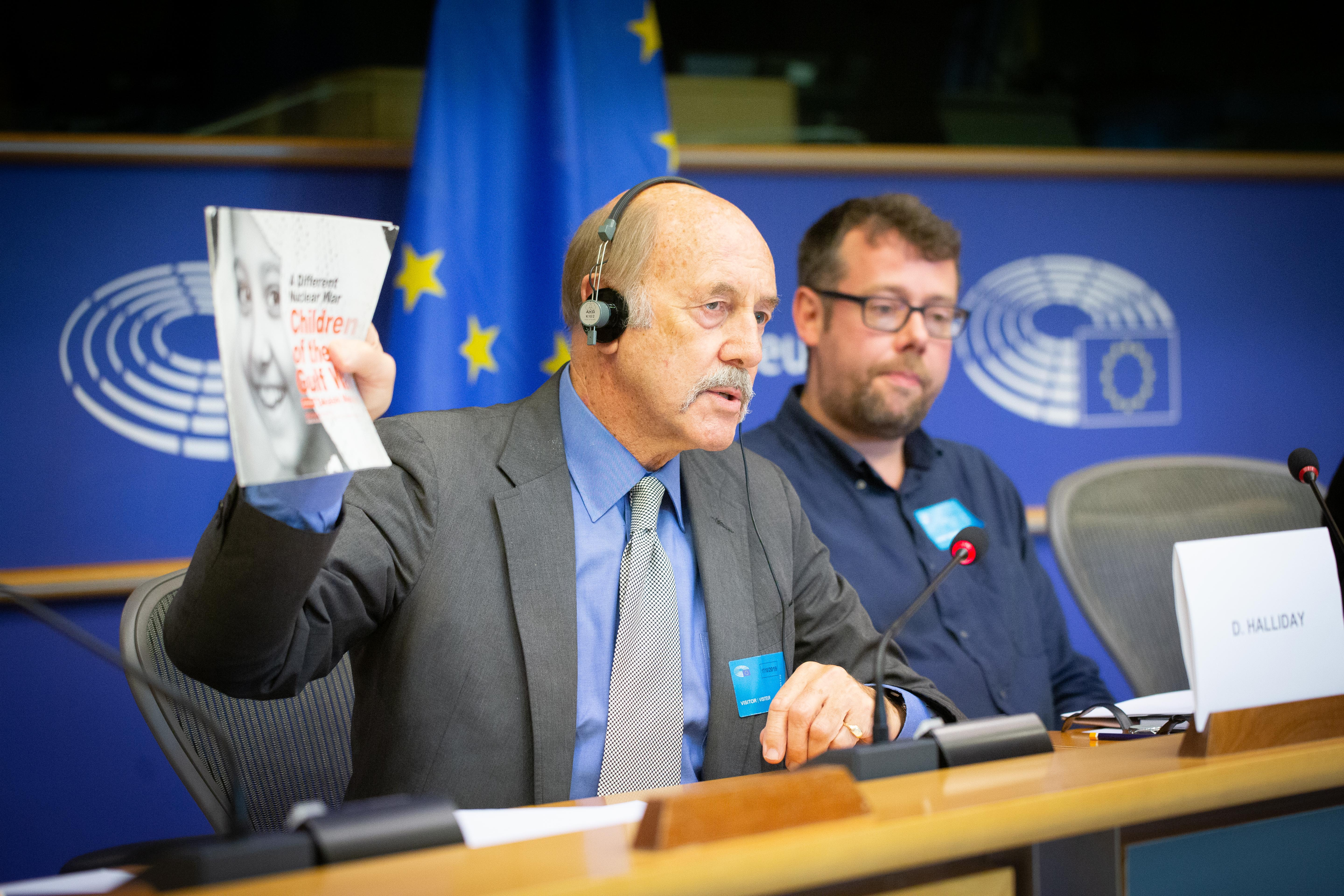 Denis Halliday (former UN Assistant Secretary General and 1997/98 UN Humanitarian Coordinator in Iraq)